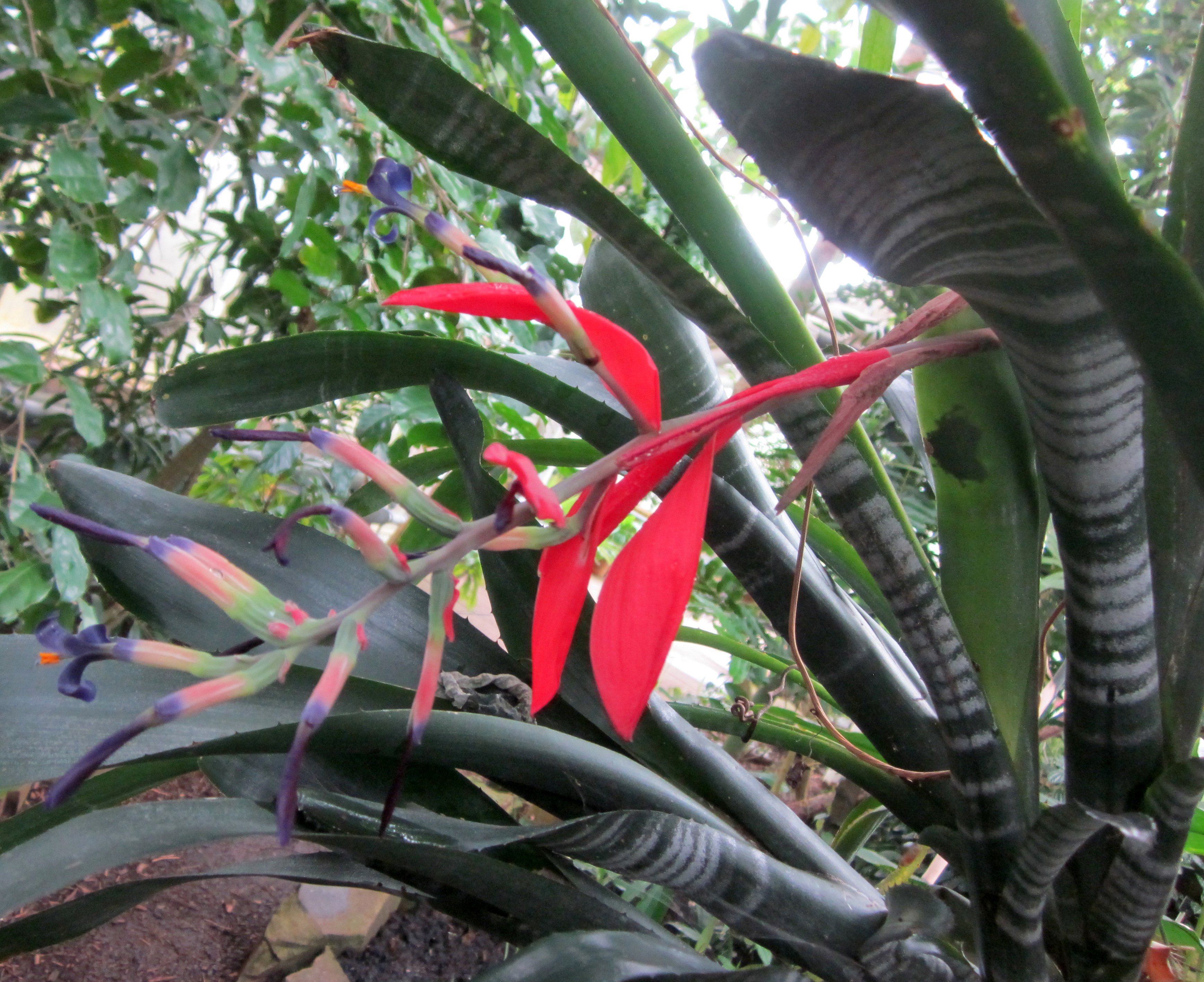 Flowering Billbergia porteana at the University of Cambridge Botanic Gardens, United Kingdom